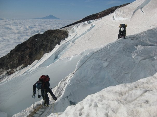 Mountaineers crossing a crevasse on Disappointment Cleaver Route on Mt. Rainier. Taken Mid-August, 2009